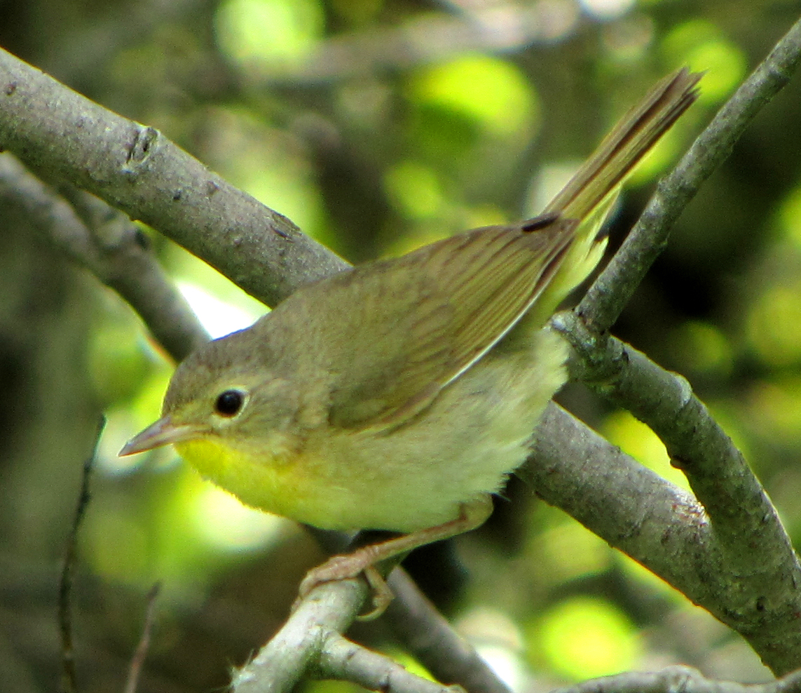 Common Yellowthroat (Geothlypis trichas), female, Upper Canada Migratory Bird Sanctuary, Ontario, Canada